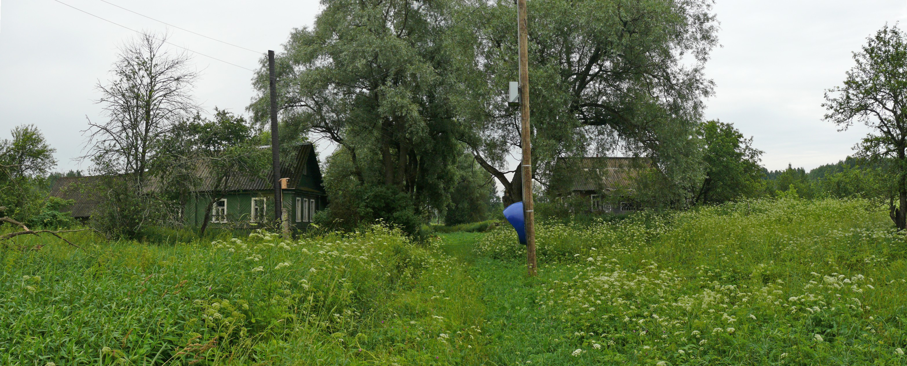 Kamenka village. Novoselsky selsovet, Starorussky district, Novgorod oblast, Russia